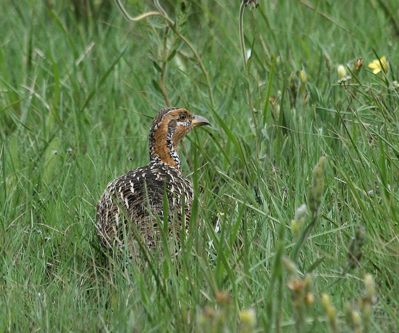 Red-winged Francolin Scleroptila levaillantii (syn. Francolinus levaillantii) in natural habitat. These birds use that large bill to dig up the bulbs that make up a large part of their diet. Location: Rugged Glen NR, KwaZulu-Natal, South Africa.